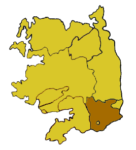 Diocese of Clonfert in the Catholic Province of Tuam. This is a current map of the ecclesiastical province in the Catholic Church. The crosses mark where the current Cathedrals of each diocese is located. The specific dioceses are in different colours.